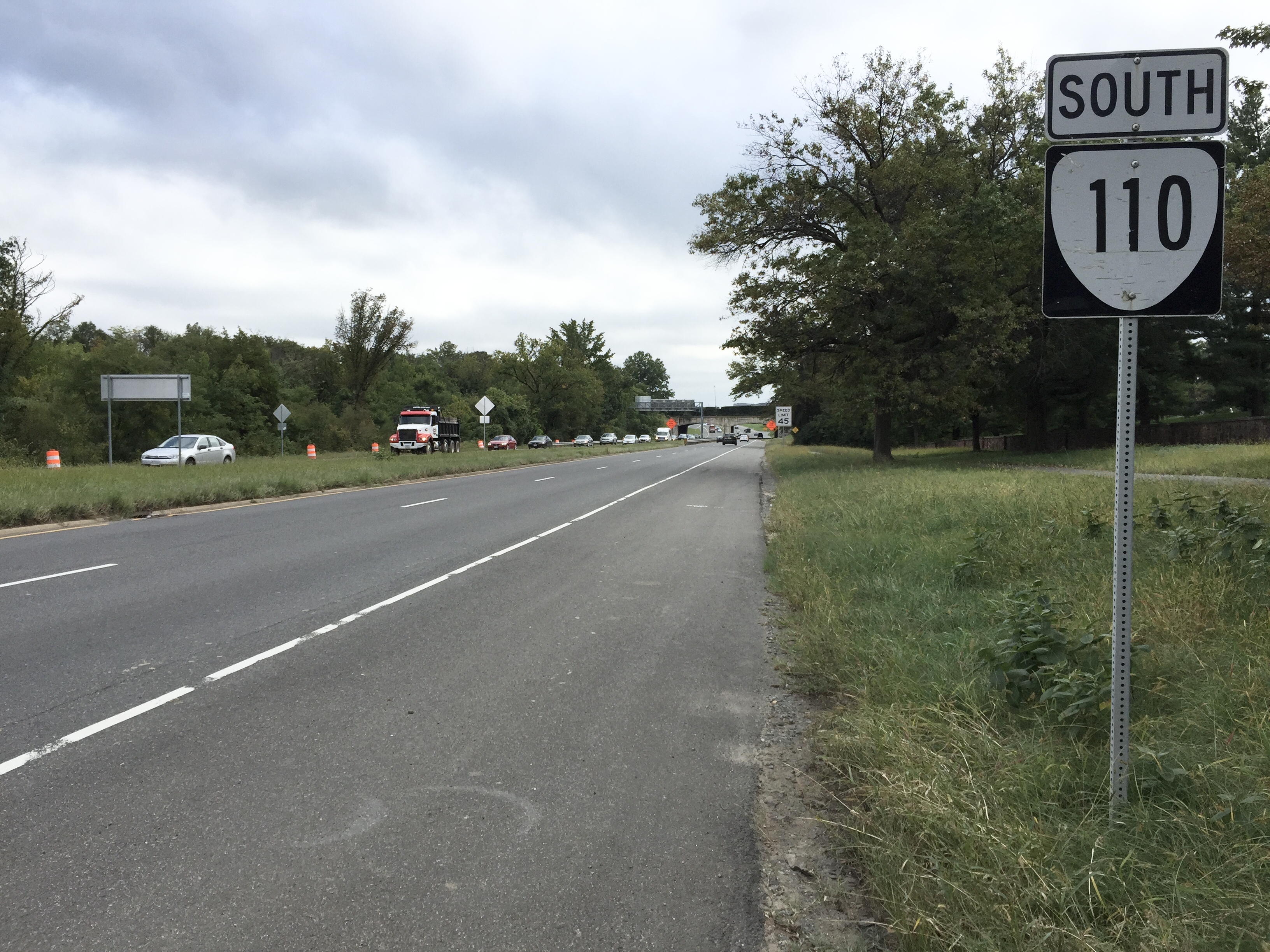 View south along Virginia State Route 110 (Jefferson Davis Highway) at Marshall Drive in Arlington County, Virginia